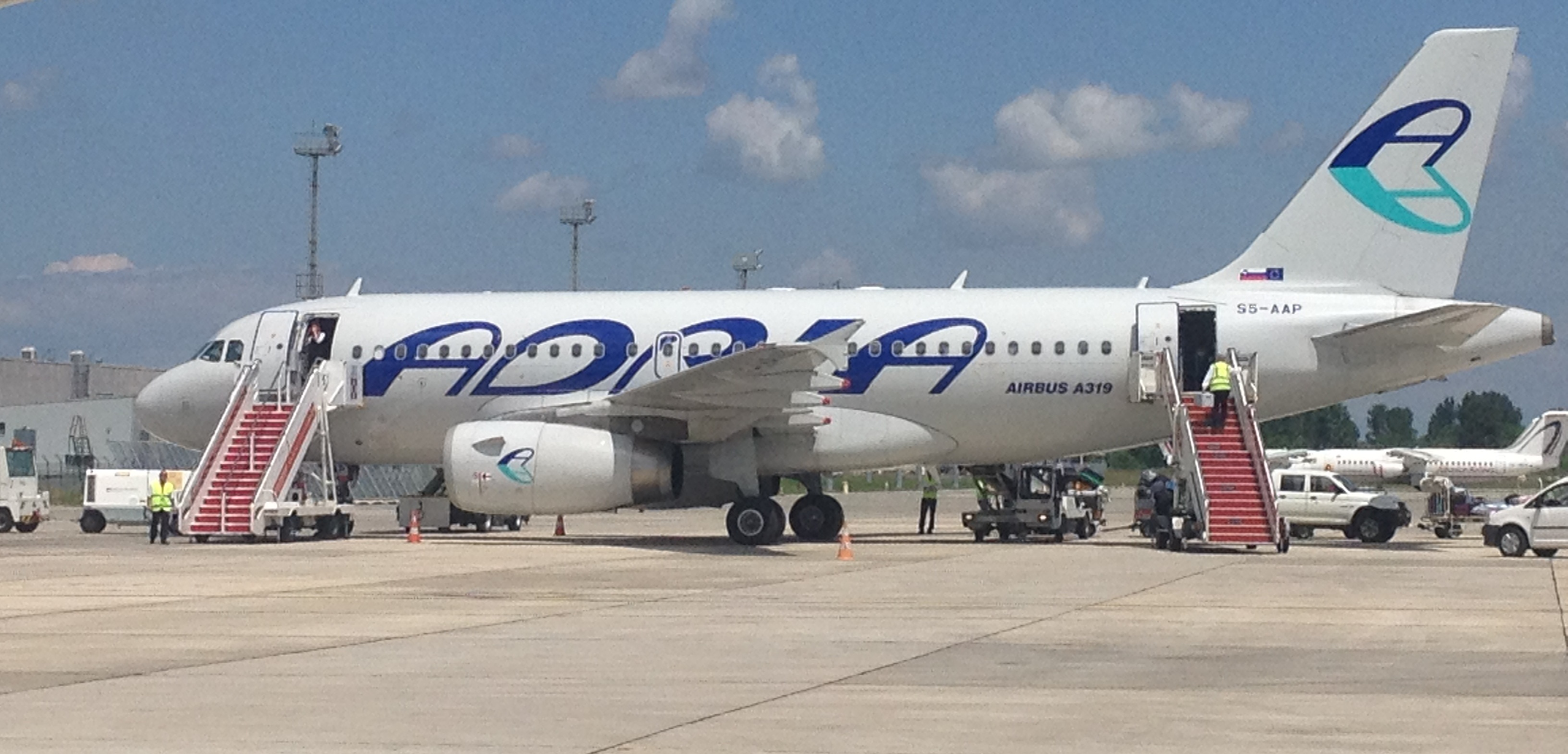 Adria at TIA